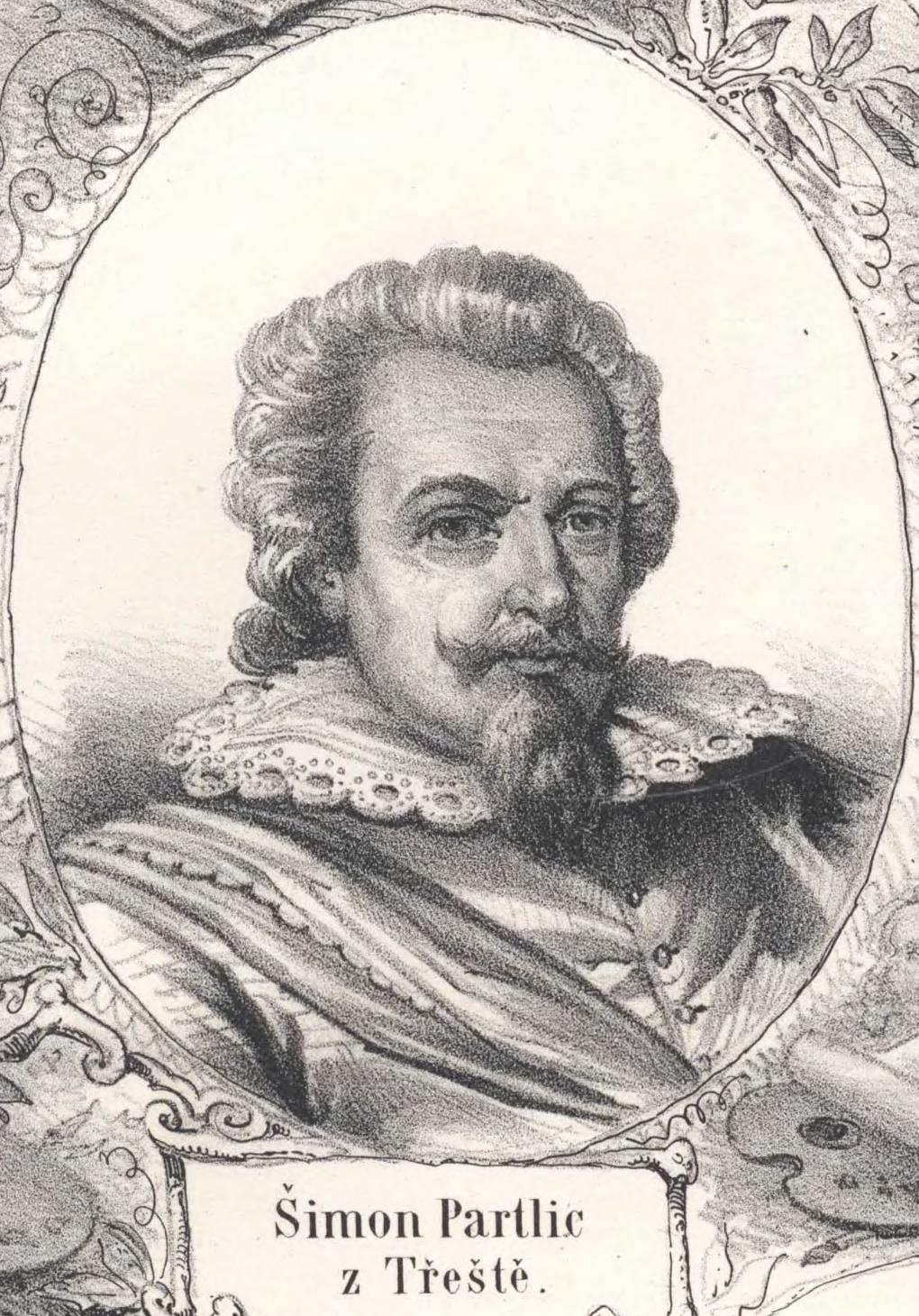 Portrait of Šimon Partlic (1590 - 1640), Czech mathematician and astronomer.